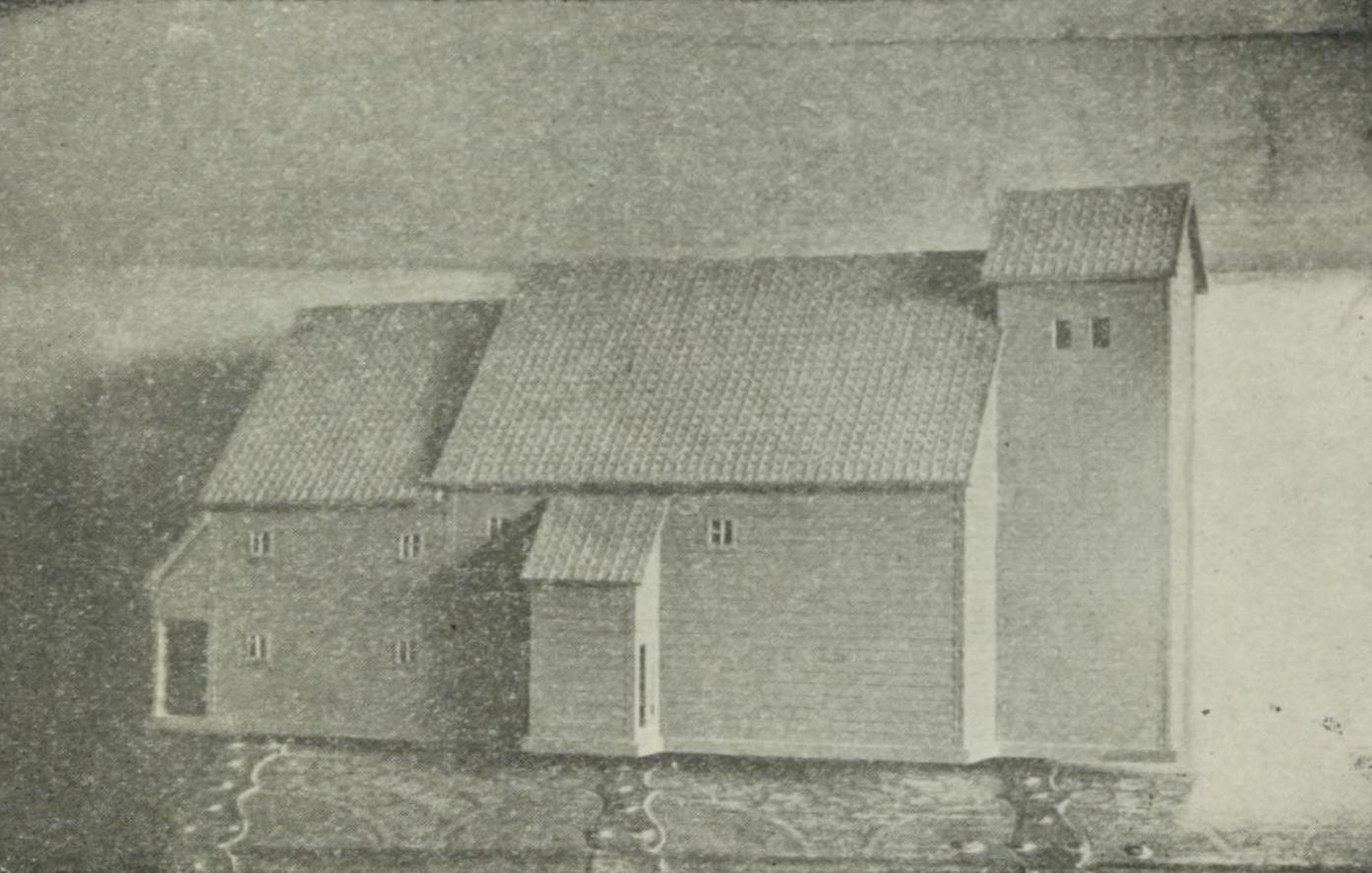 Modell av Øystese gamle kirke, en ombygget stavkirke. Illustrasjon fra «Kvam i fortid og nutid» (1921), s. 249, som gjengitt i Lokalhistoriewiki.